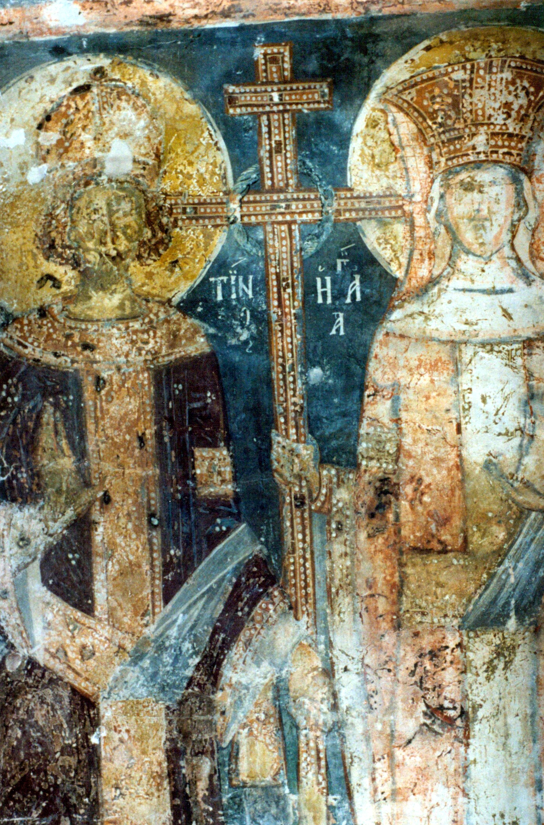 Sts Constantine and Helena Church in Ohrid Fresco